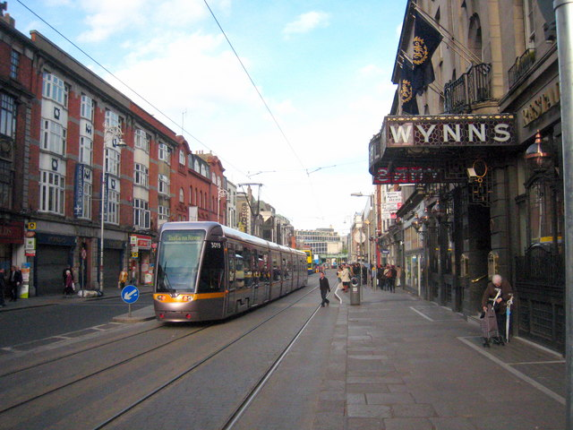 A view of Lower Abbey Street, Dublin with the entrance of Wynn's Hotel on the right.